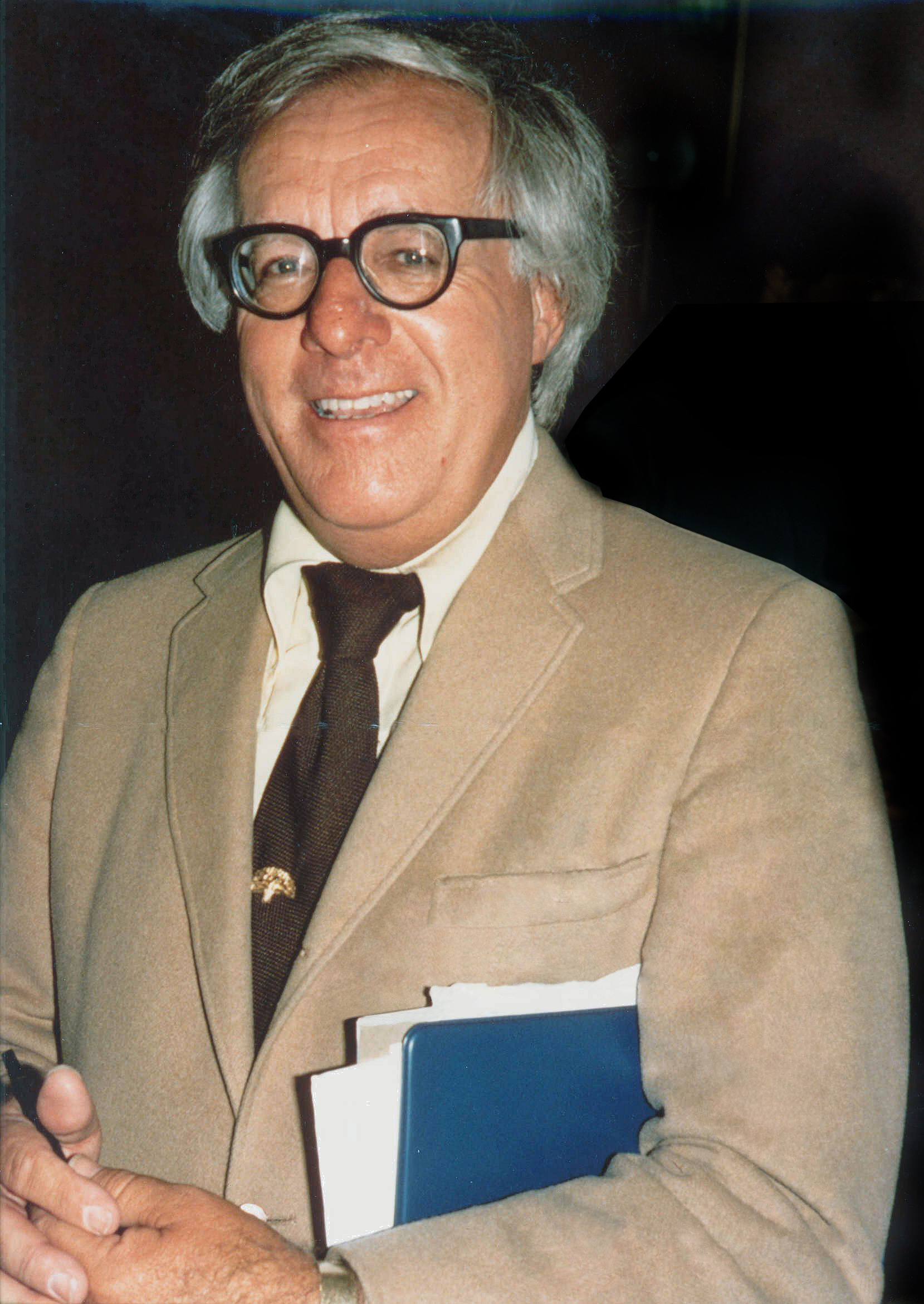 Photo of Ray Bradbury.